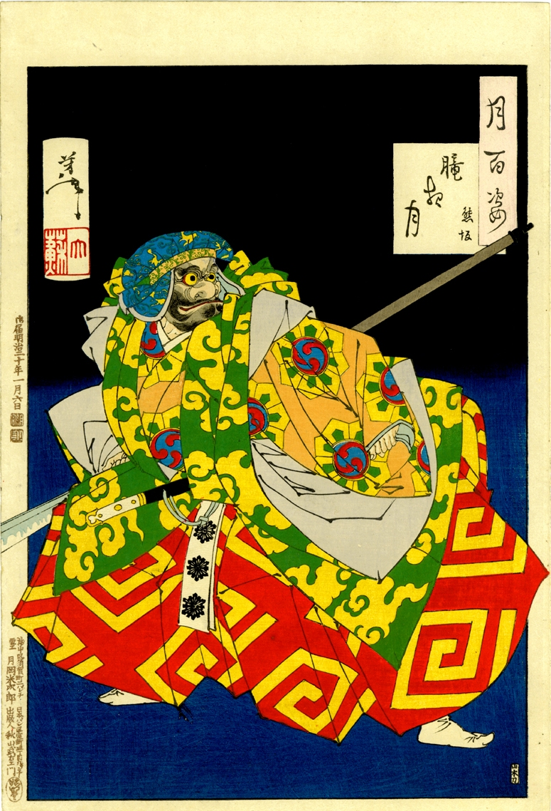 Hazy-night Moon. The ghost of Kumasaka has appeared dressed in full Noh costume,complete with mask and sword. No. 45 in the ukiyo-e print series One Hundred Aspects of the Moon.